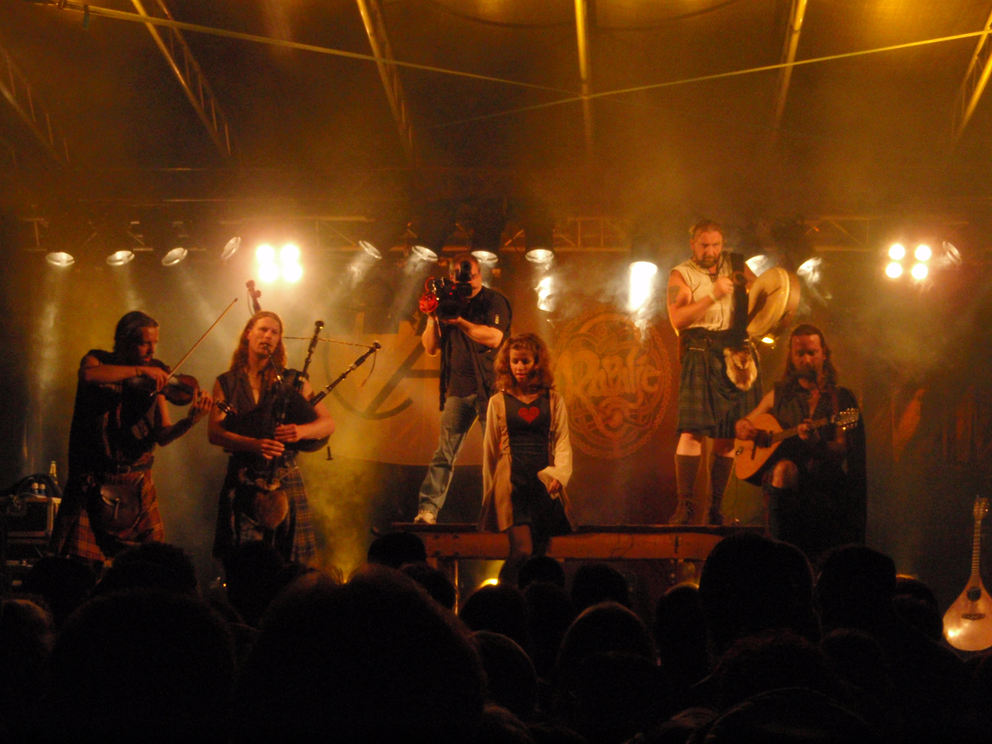 "Rapalje" (NL), appearance at the "Folk im Schlosshof" festival 2009 at Bonfield / Germany